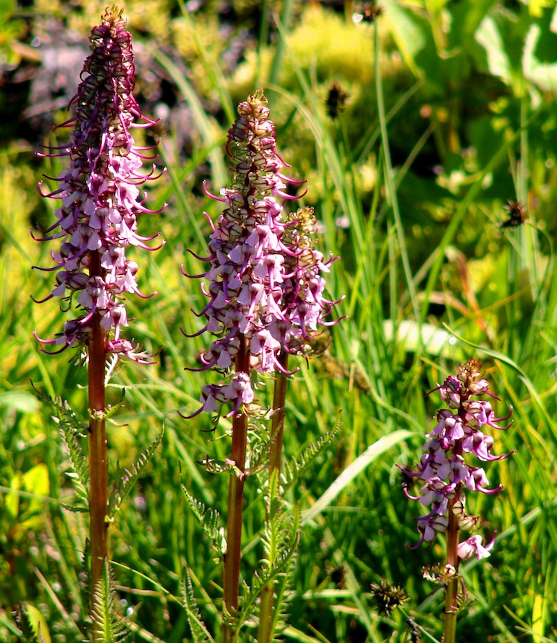 (Pedicularis groenlandica) Photo credit: NPS/Steve Redman Learn more about this flower at